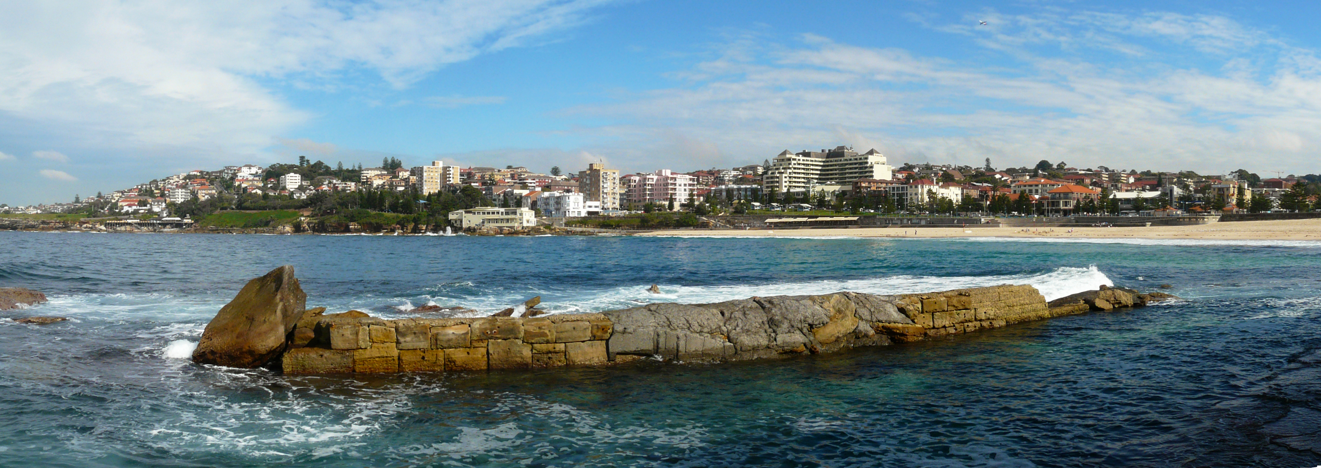 Wedding Cake Island, Coogee Beach, Sydney